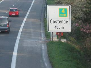 Highway A10 on Oostende